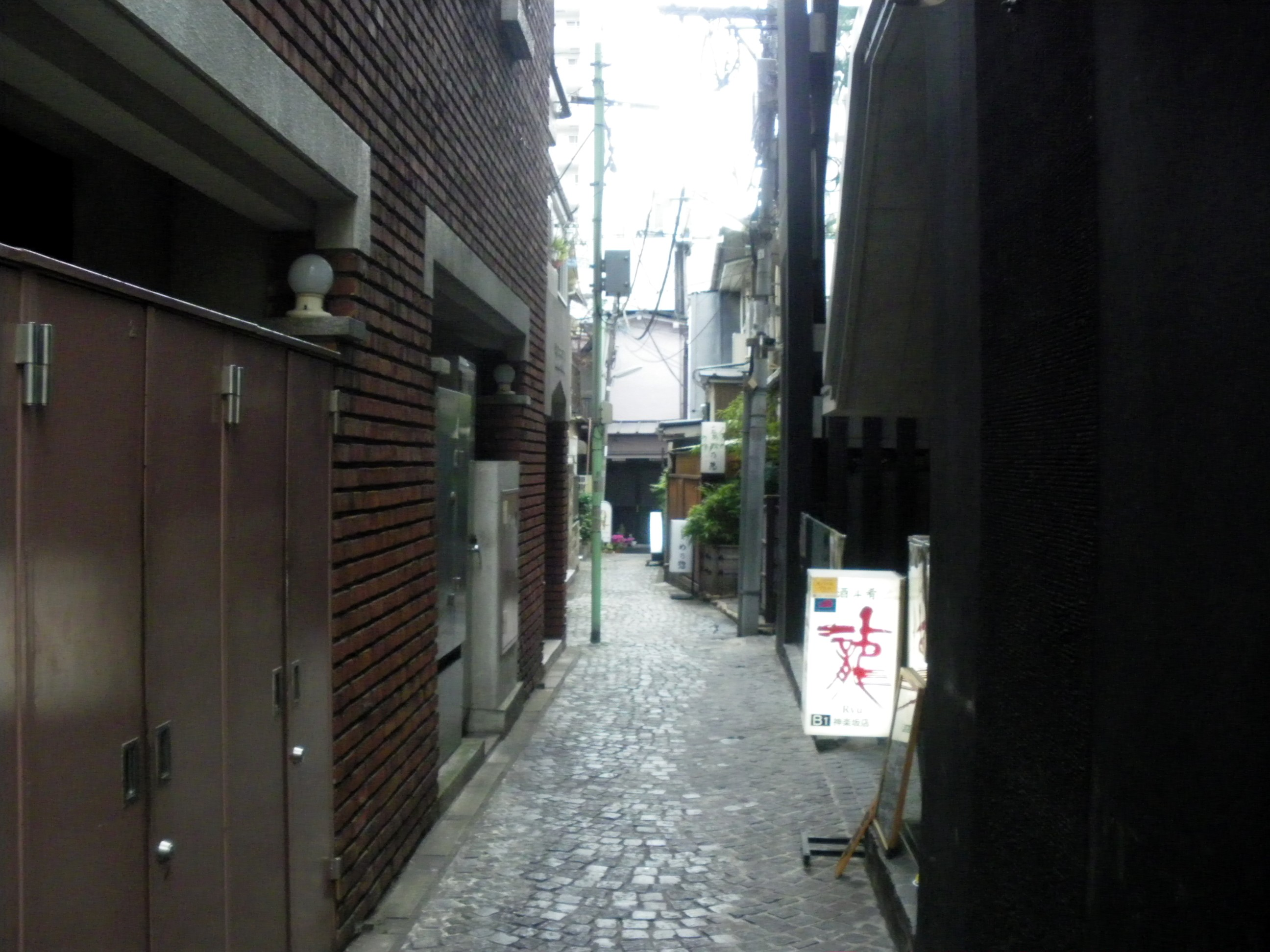 a path at Kagurazaka Slope(Shinjuku,Tokyo)